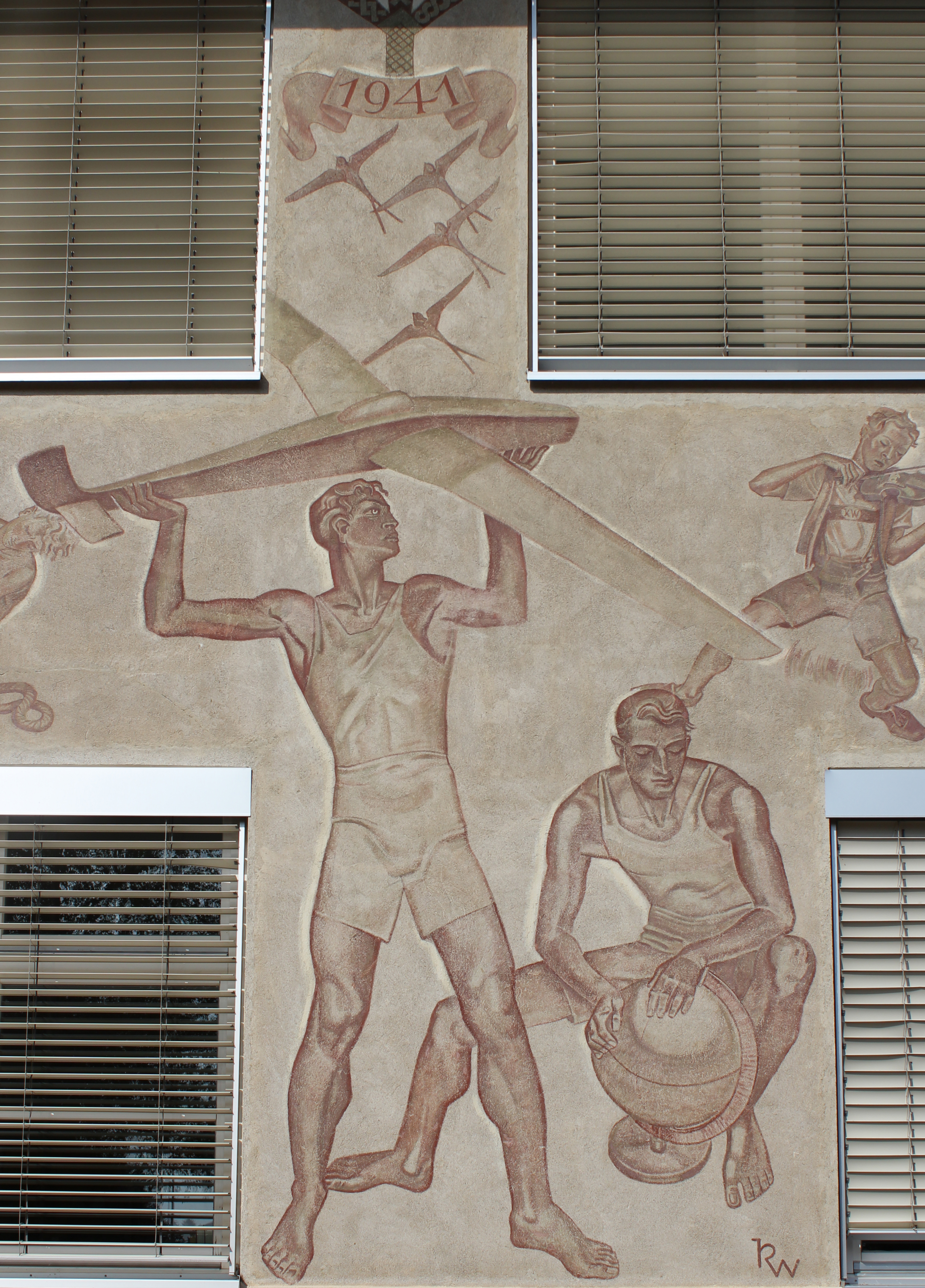 Primary school in Sankt Kanzian am Klopeiner See